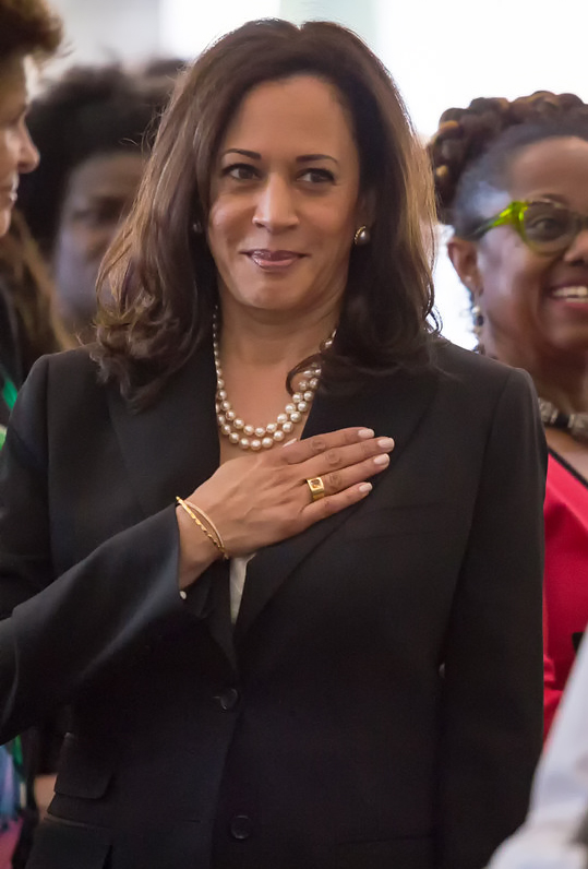 4-21-17 Los Angeles Town Hall